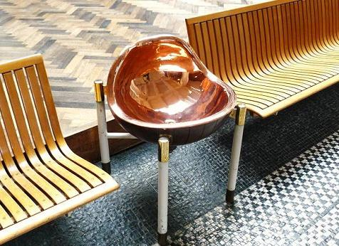 Town Hall of Århus, Denmark: Drinking fountain in the hall. Drawing by Hans J. Wegner, who also made the drawvings for the furniture.